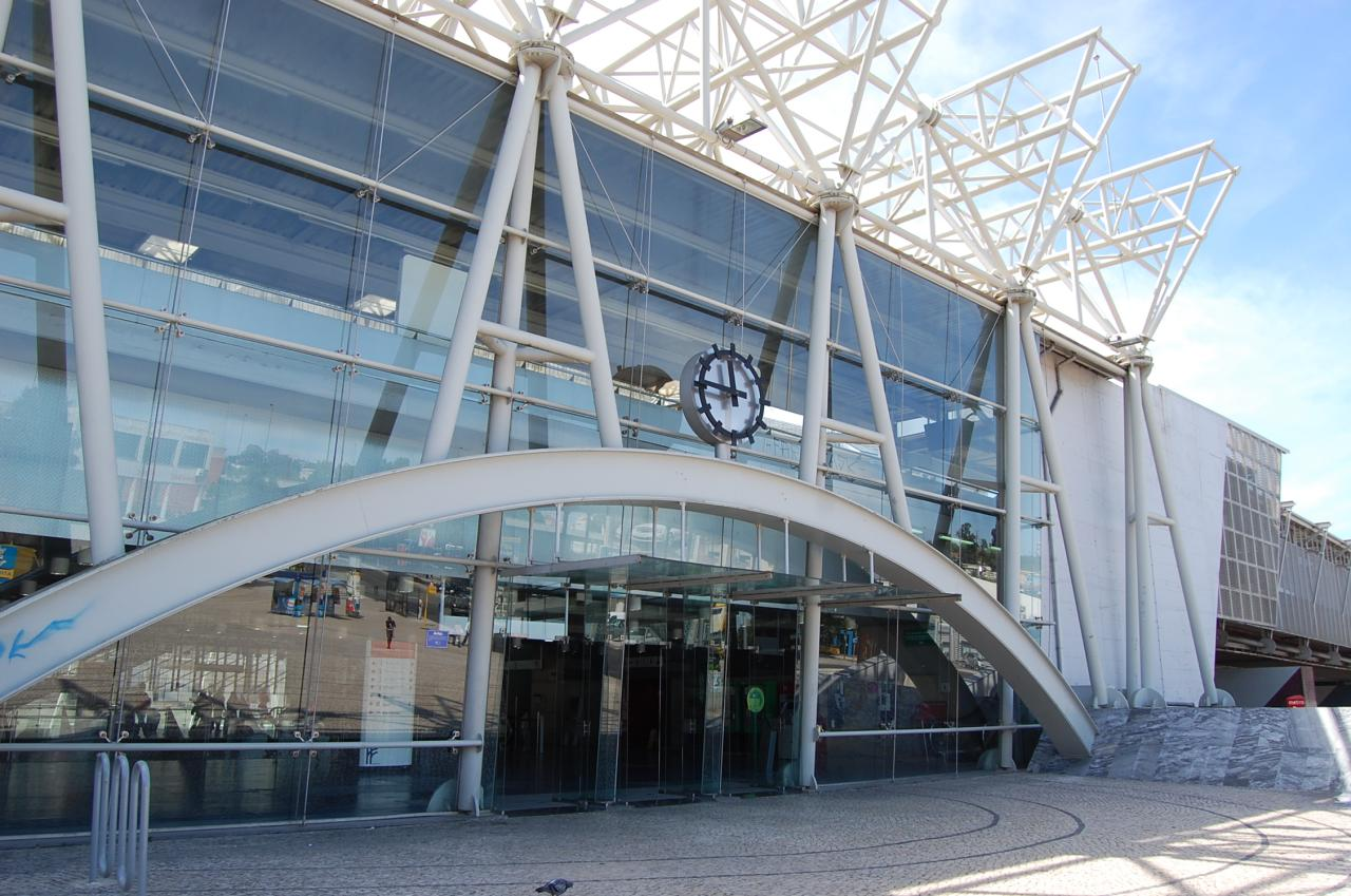 Sete Rios Train Station